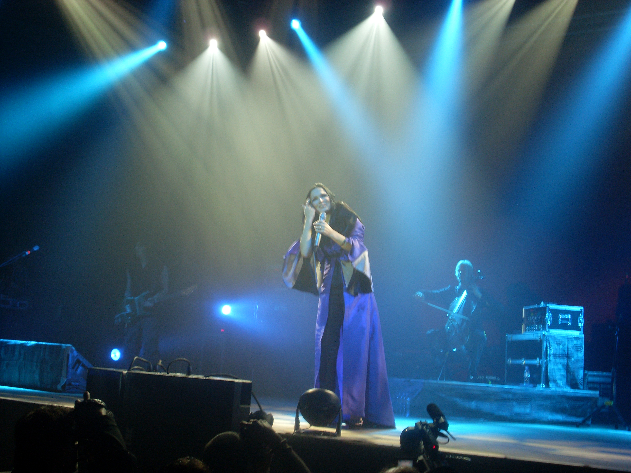 Tarja Turunen live in Sofia, Bulgaria.